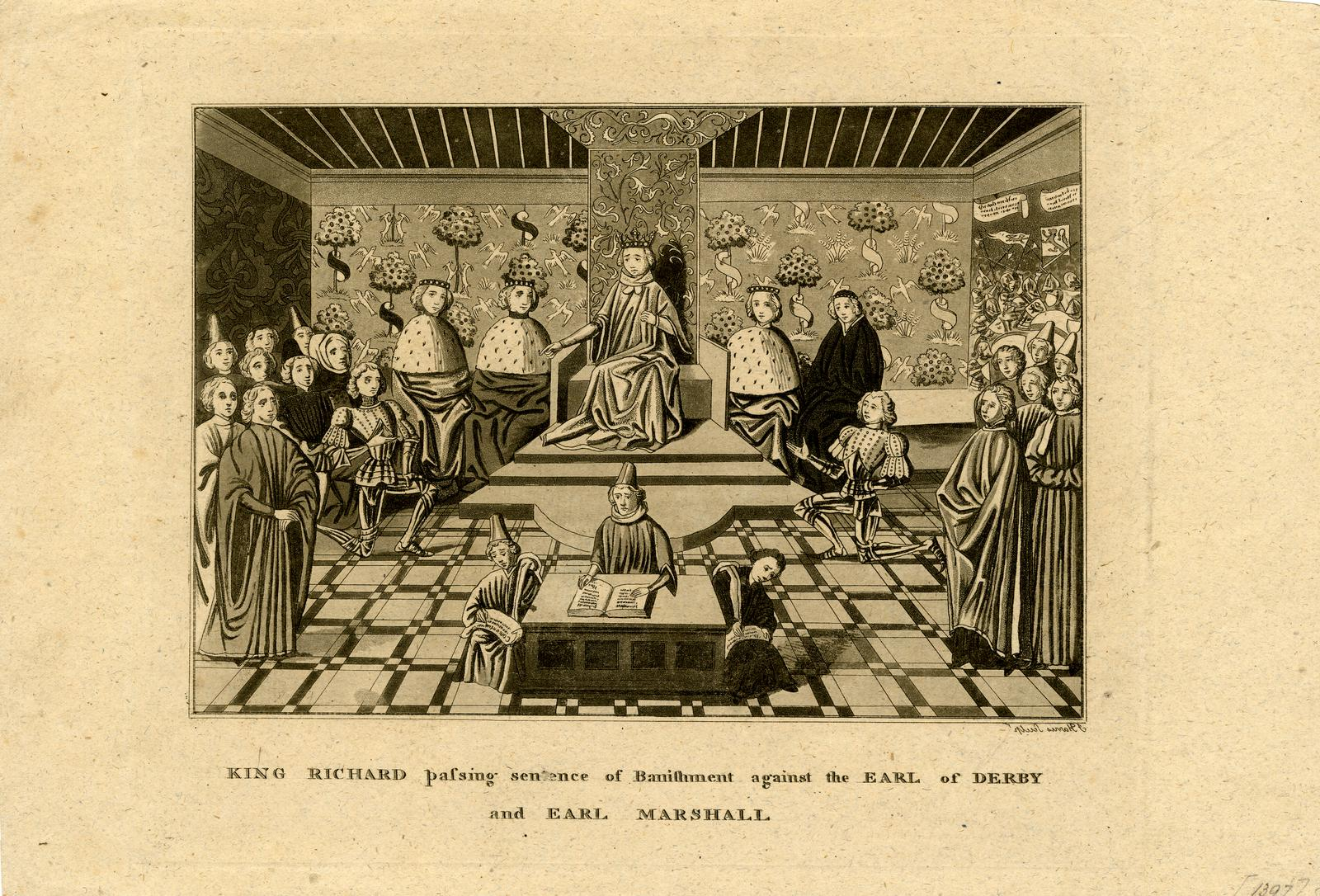 Richard II sitting enthroned, looking sadly and gesturing to left as he banishes the two Earls, the later Henry IV and Duke of Norfolk, who kneel to either side, watched by men, women and nobles, with three scribes in the foreground; from a medieval manuscript. Etching and aquatint